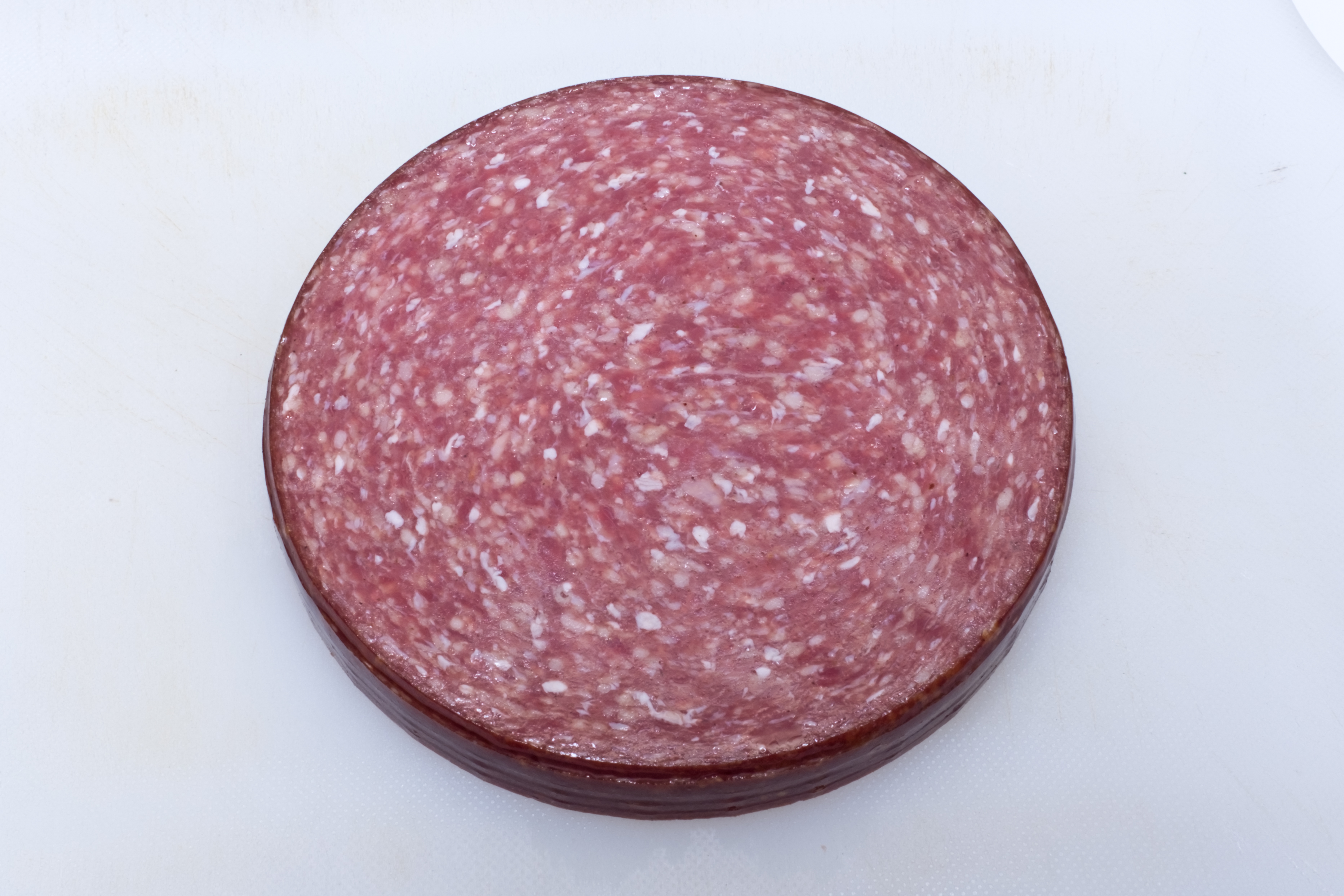 Lebanon Bologna. Measures 4¼ inches in diameter